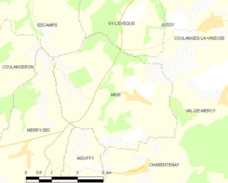 Map of French municipality Migé